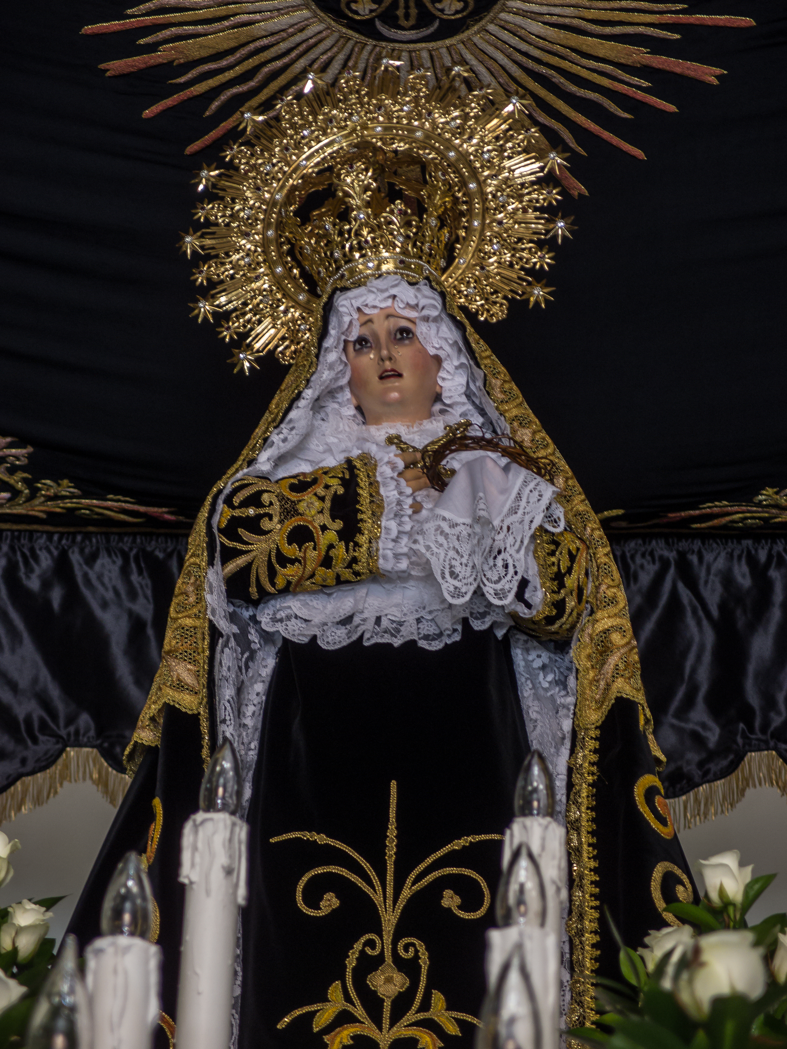 OLYMPUS DIGITAL CAMERA This is a photography of a Folklore festival in Spain (Wikidata id Q23541308).